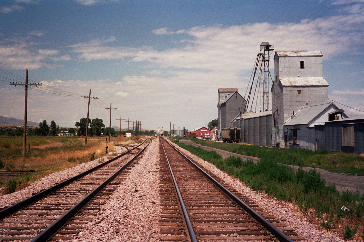 Railroad in Montana, USA